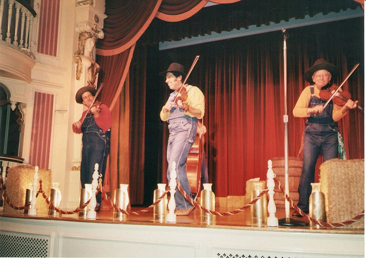 Billy Hill and the Hillbillies, performing at the Golden Horseshoe Theatre in Disneyland